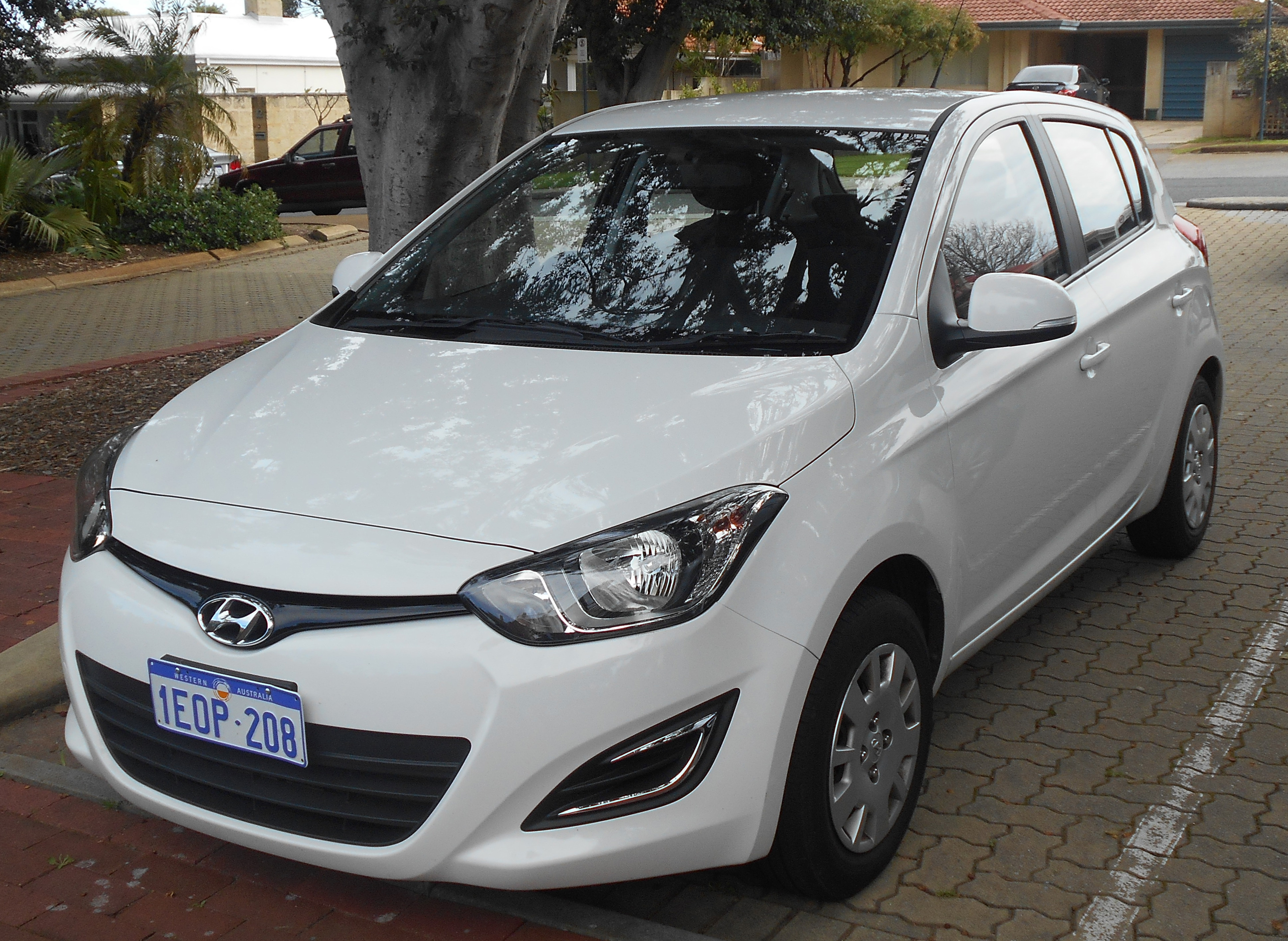 2014 Hyundai i20 (PB MY15) Active 5-door hatchback. Photographed at Scotch College, Perth Swanbourne, Western Australia Australia